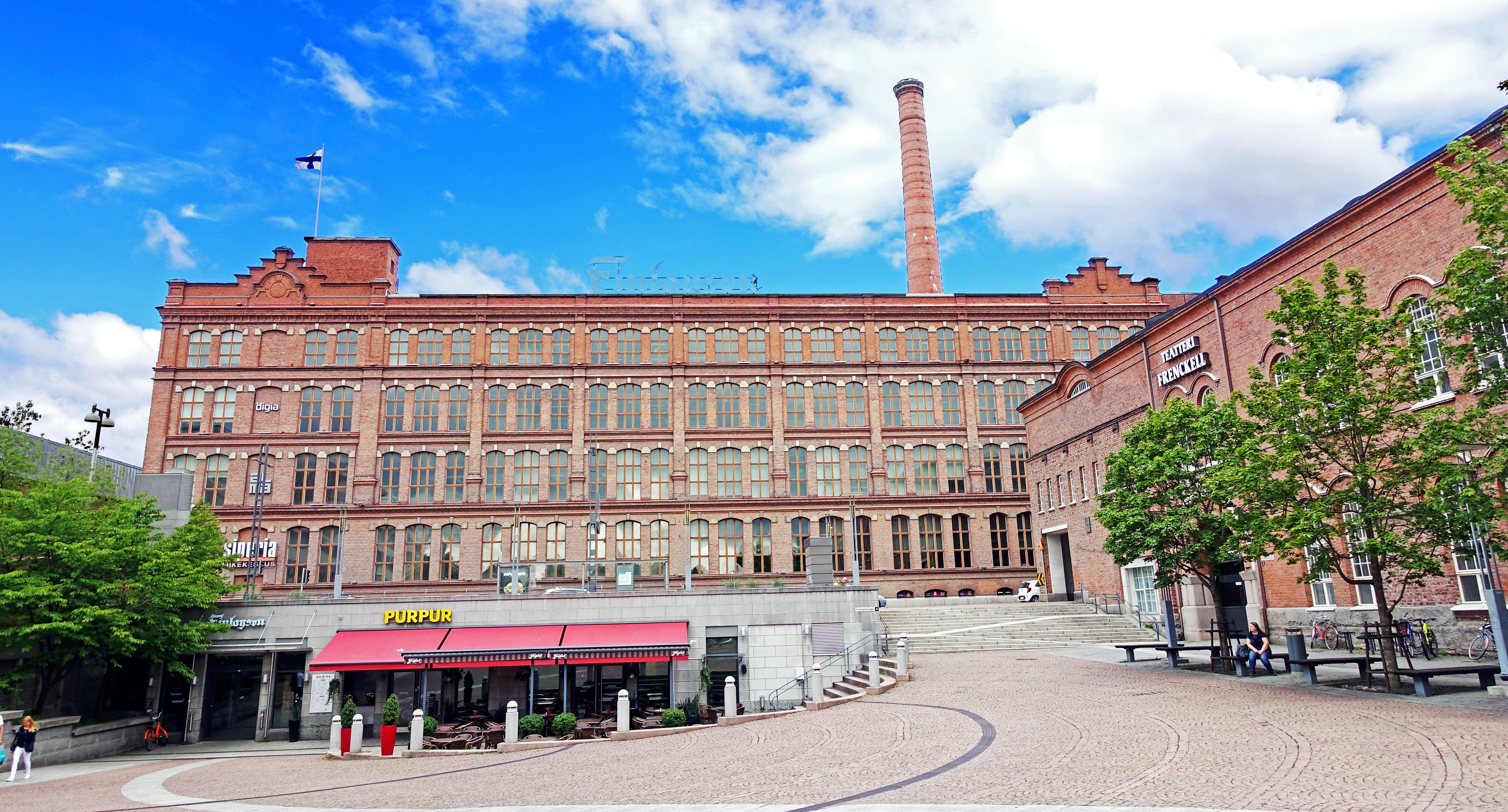 Finlayson factory, Tampere.